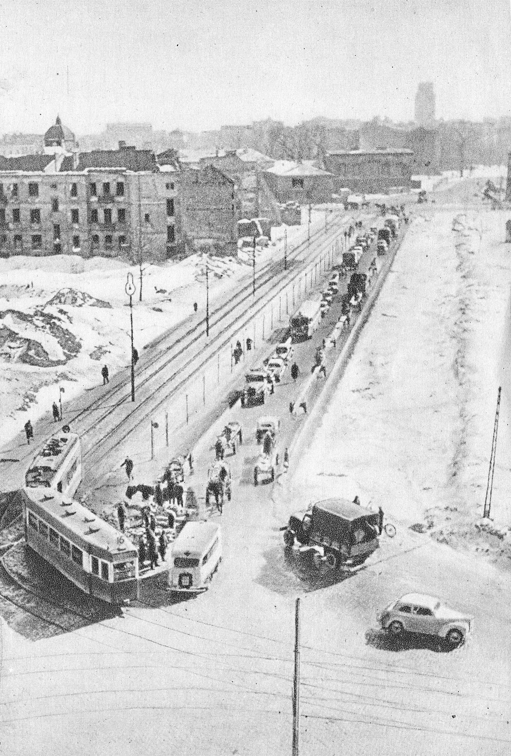 Marceli Nowotko Street (currently Władysław Anders Street) at the intersection with Stawki Street in Warsaw